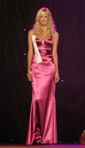 Miss Scotland 2008 Stephanie Willemse during Miss World 08